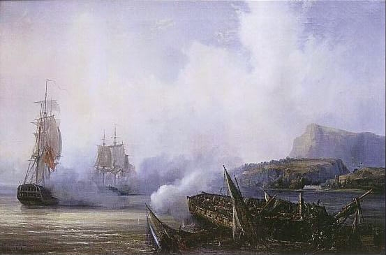 Destruction of the Preneuse